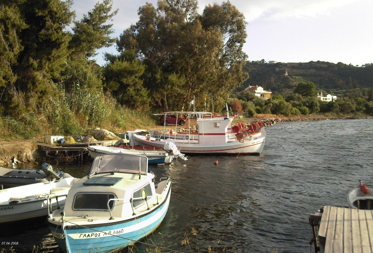 The harbor / fishing shelter in Tsoukaleika village, Achaia, Greece.